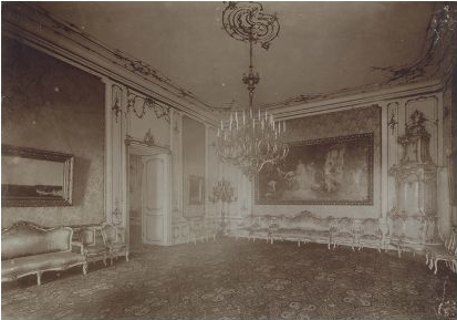 Room in the in the baroque part of the Royal Castle of Budapest.